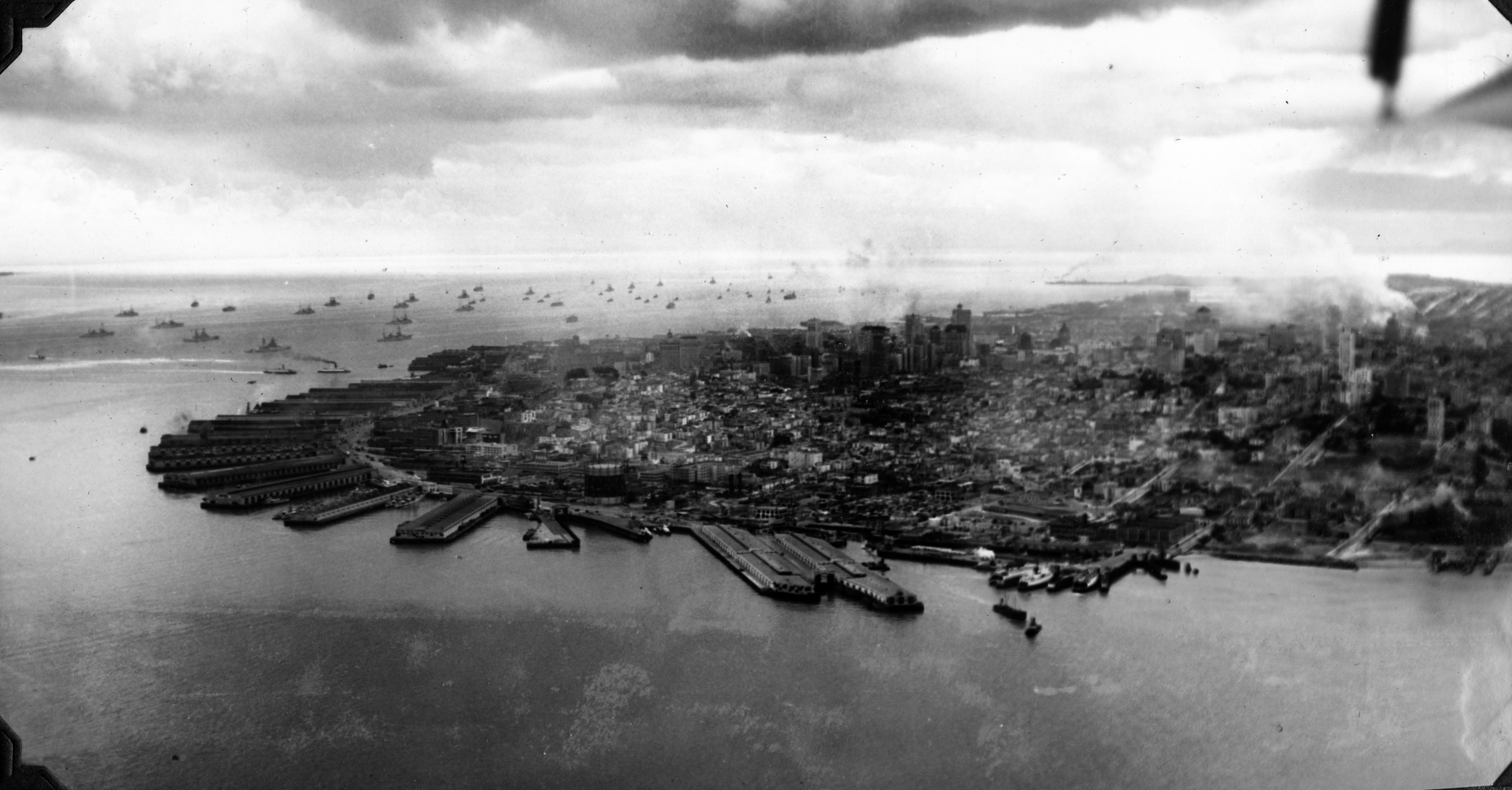 PictionID:38275346 - Catalog:AL-135B 049 - Filename:AL-135B 049.tif - This image is from a photo album donated to the Museum by JL Highfill which includes images taken in the Pacific during the Second World War-----------PLEASE TAG this image with any information you know about it, so that we can permanently store this data with the original image file in our Digital Asset Management System.-----------------SOURCE INSTITUTION: San Diego Air and Space Museum Archive